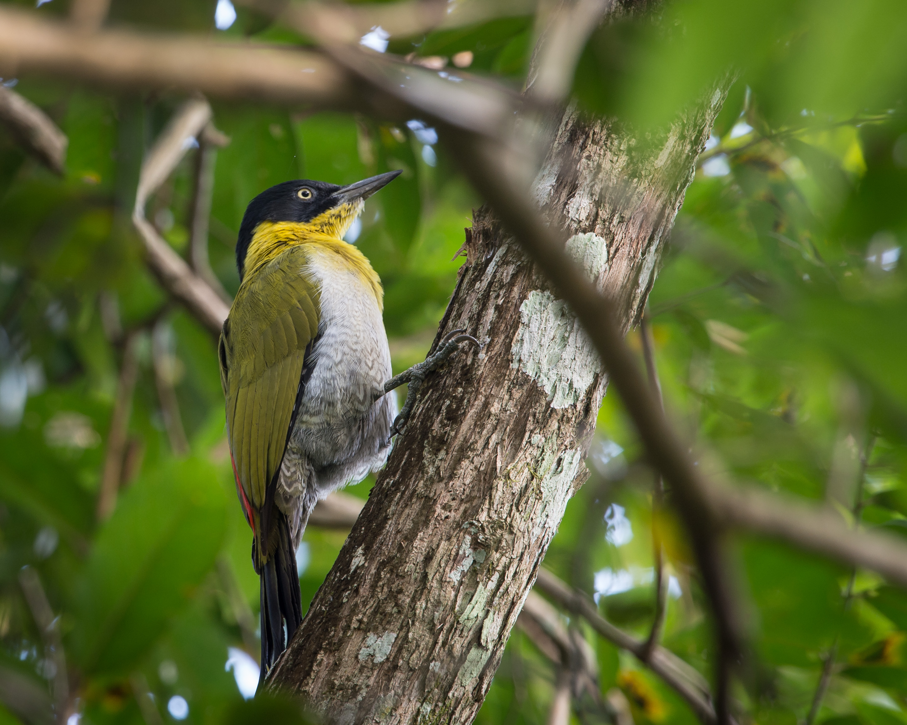 20th Nov 2013, Huai Kha Khaeng Wildlife Sanctuary, central Thailand.